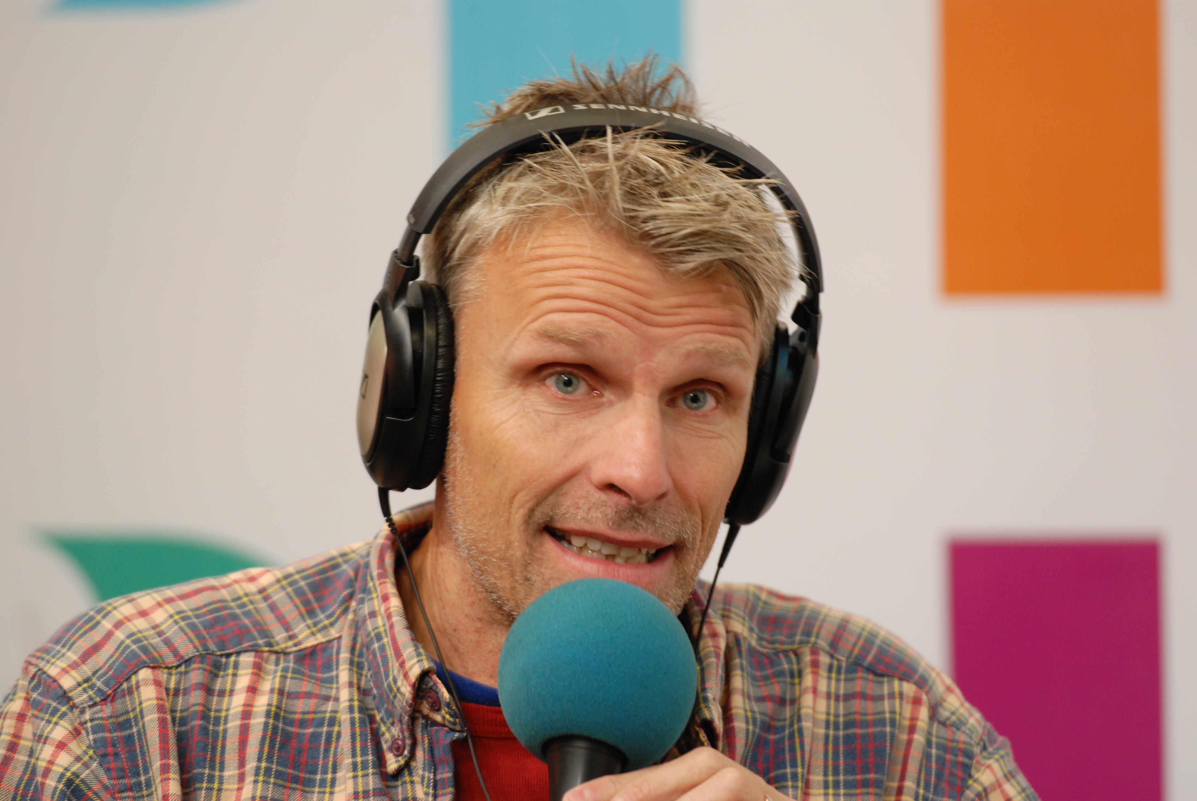 The Swedish sports journalist and sports commentator Christian Olsson in Swedish Radio P4 program Zimmergren & Tengby live from Göteborg Book Fair 2013.